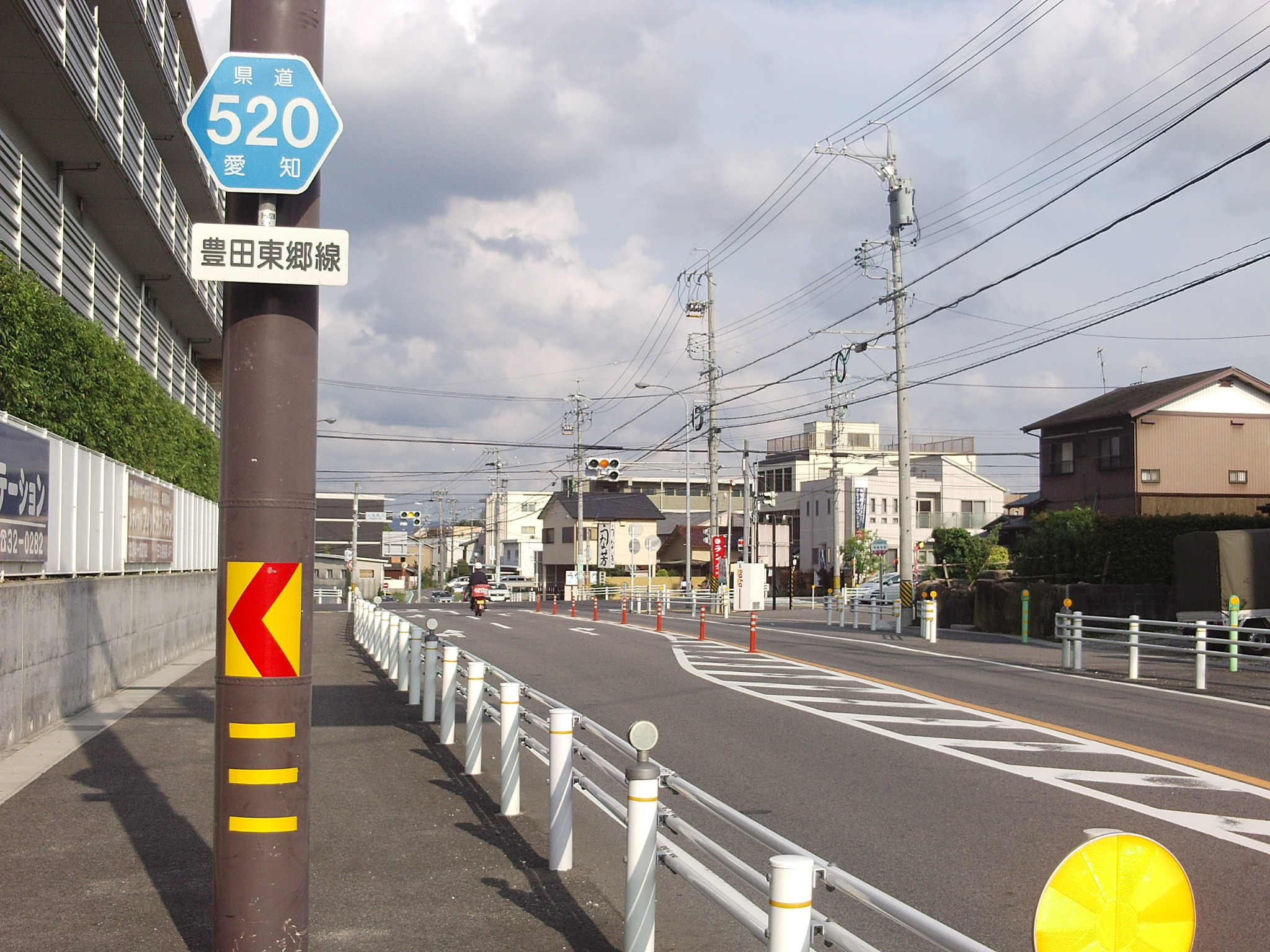 Aichi prefectural road No.520 in Kozakacho 7-chome, Toyota, Aichi.